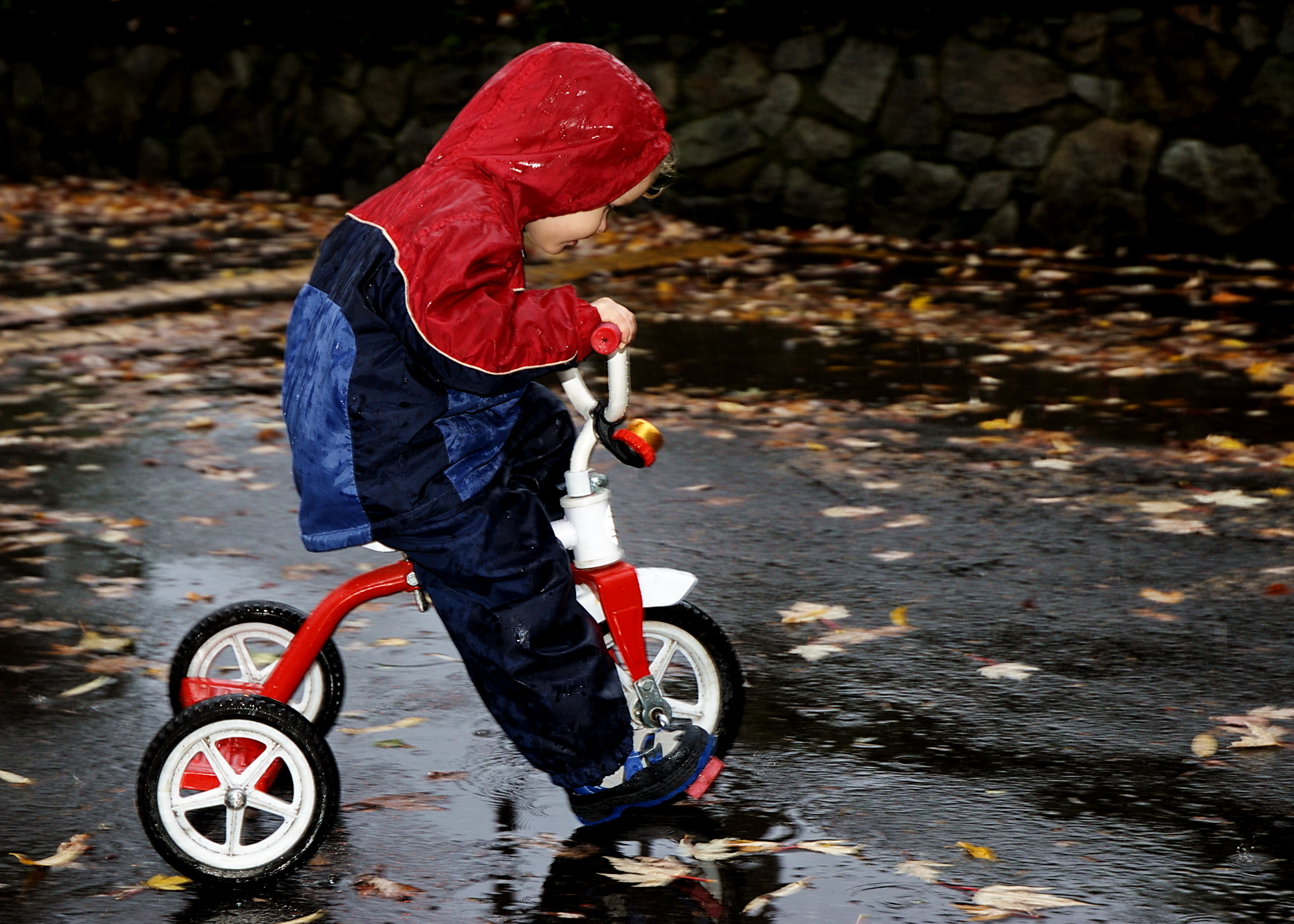 Young child on a tricylce, wearing waterproof clothing. Wet asphalt and leaves in the background.Trike in the Rain